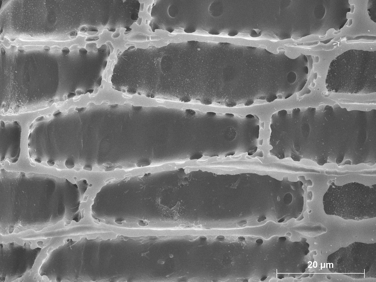 Parenchyma cells in a wood ray of Picea abies (radial section of a thermally modified sample)